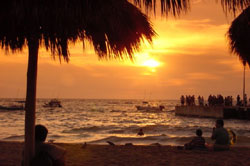 City: Puerto Vallarta Location: Los Muertos Beach, Sunset 2004. Source: Bill Royle